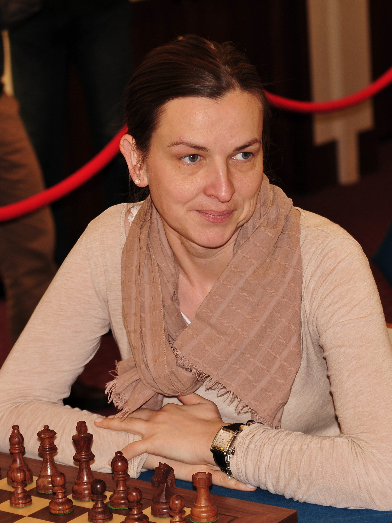 WGM Marta Michna, European Chess Team Championship Warsaw 2013